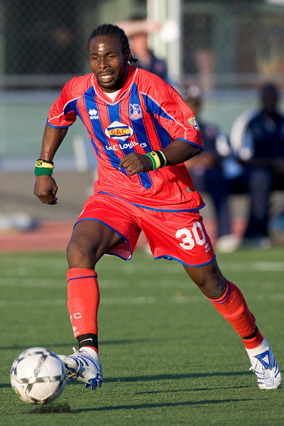 Jamaican forward, Gary Brooks, playing for Crystal Palace FC USA in a soccer match at UMBC Stadium in Catonsville MD on May 10 2008 against the Wilmington Hammerheads in the United Soccer Leagues 2nd Division.